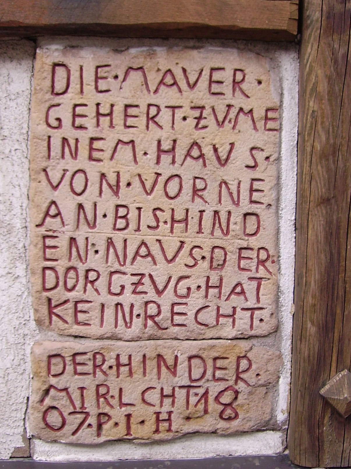 in Mußbach, part of Neustadt an der Weinstraße, Germany